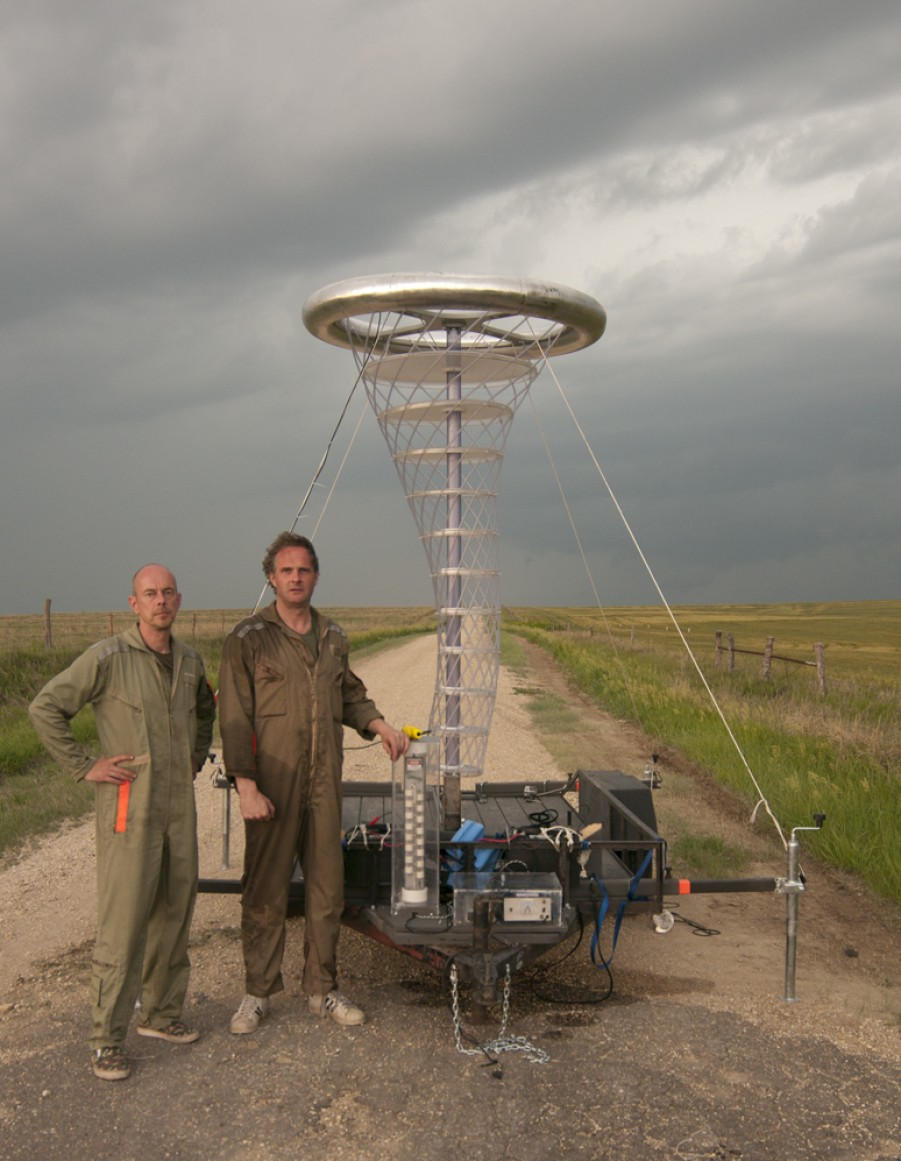 Bigert & Bergström, framför the tornado diverter, stillbild från inspelningen av The weather war, 2012